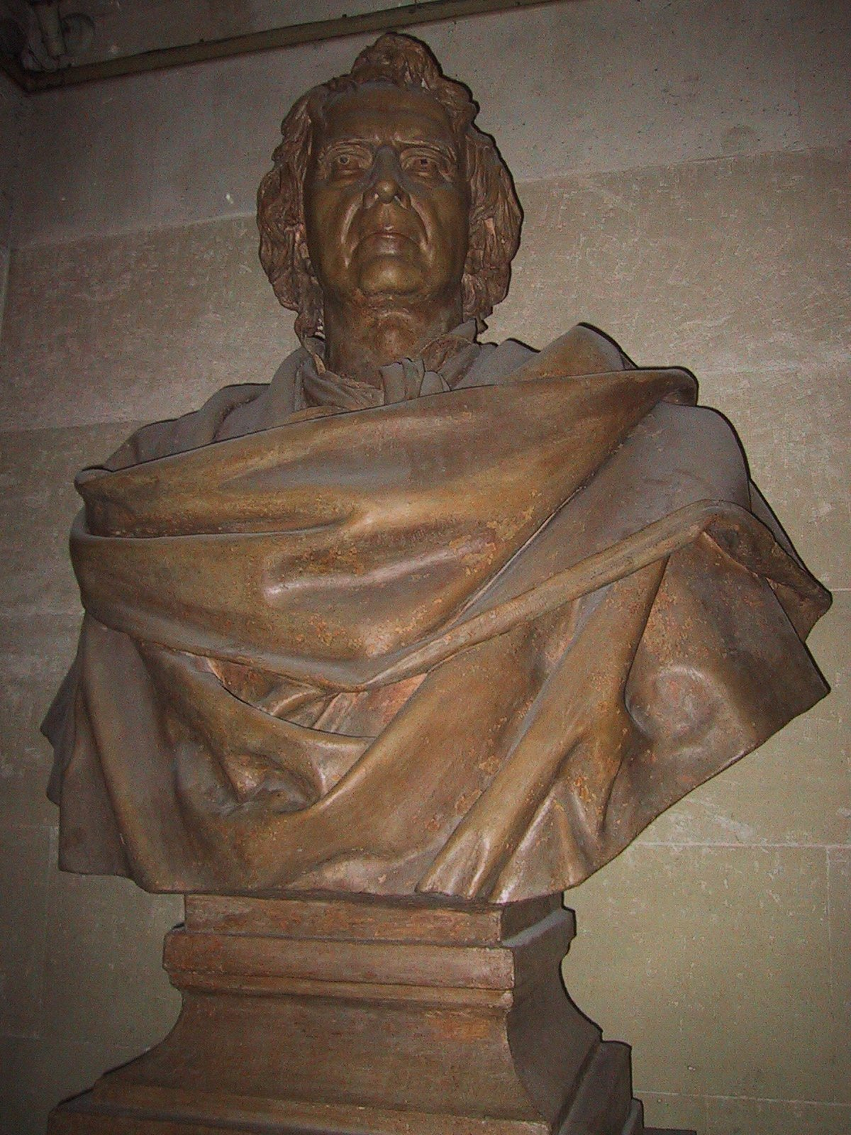 Bust of François Arago by Alexandre Oliva (1860), Observatoire de Paris.